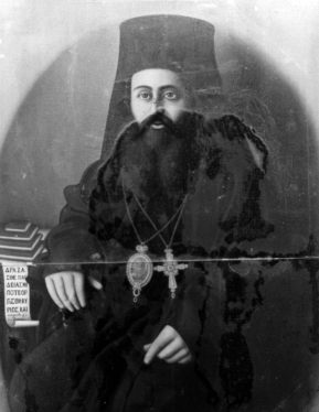 Bishop Agapios of Vratsa (? - 1849).